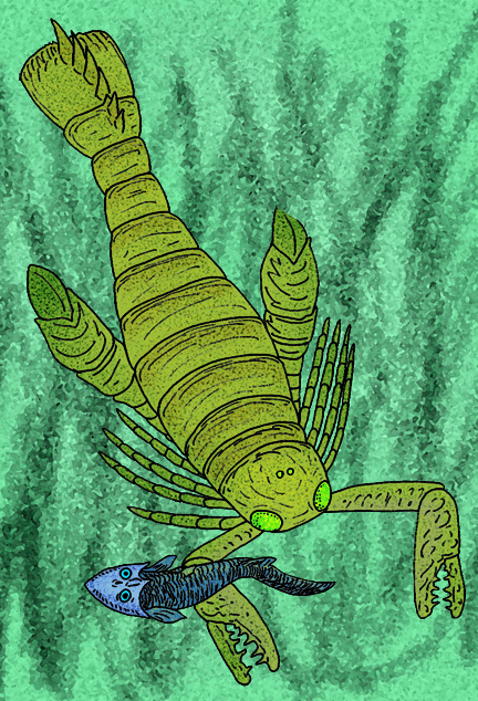 The giant Silurian eurypterid Acutiramus cummingsi (Note:Pterygotus buffaloensis is a jr synonym of Pterygotus cummingsi which in turn is a jr synonym of Acutiramus cummingsi)